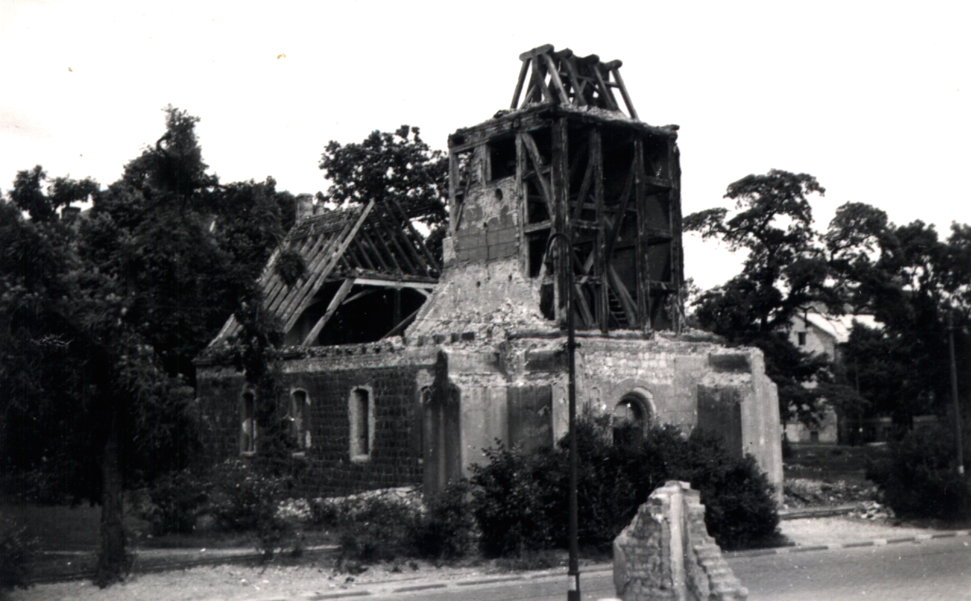 The heavily destroyed village church Lichtenberg around 1948